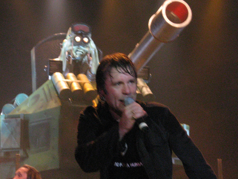 Bruce Dickinson, Iron Maiden's lead singer, during a show in Barcelona (A Matter of Life and Death World Tour). Behind there's Eddie, Iron Maiden's mascot.